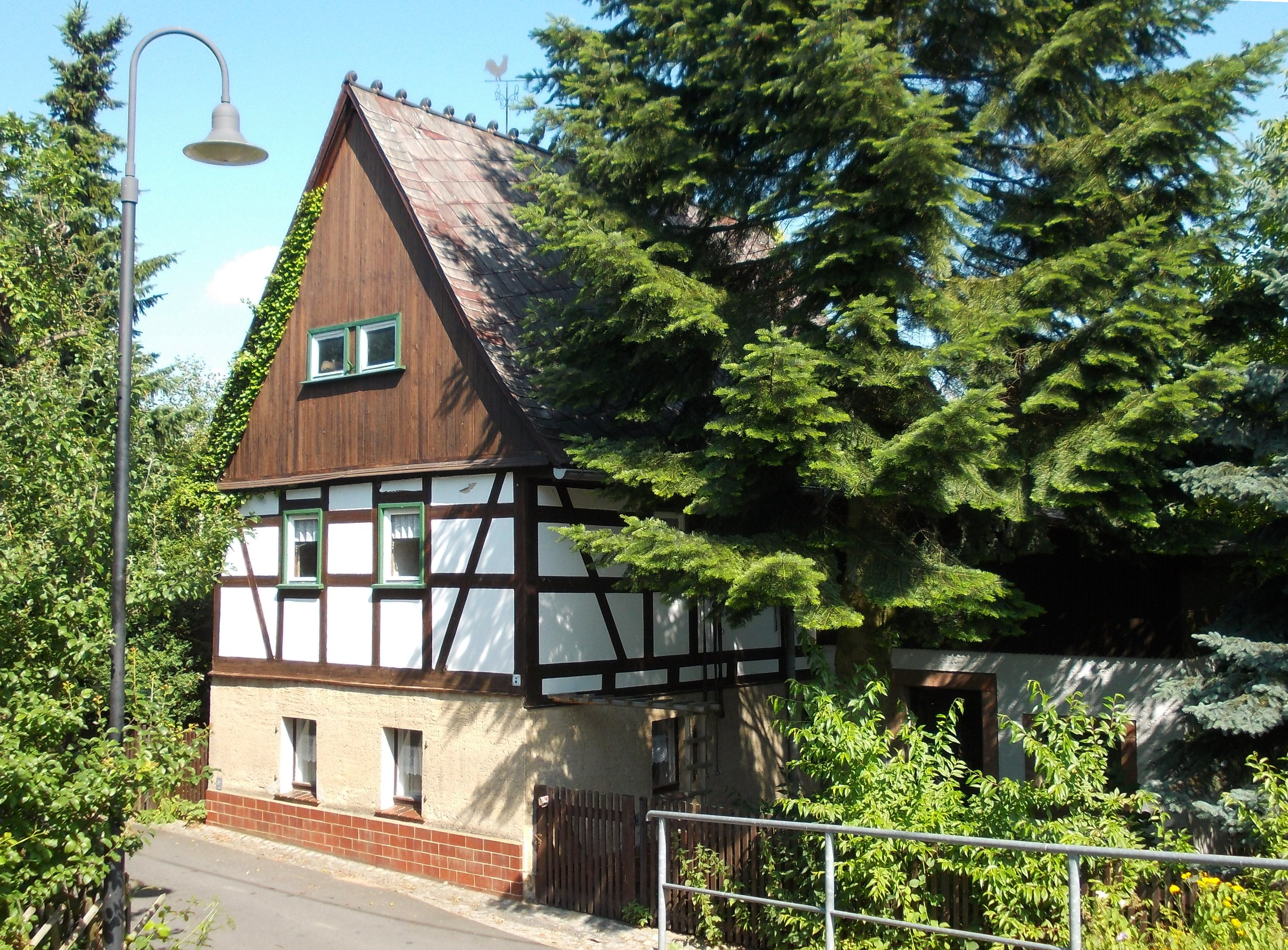 Half-timbered house at Brunnengasse in Zollwitz (Colditz, Leipzig district, Saxony)